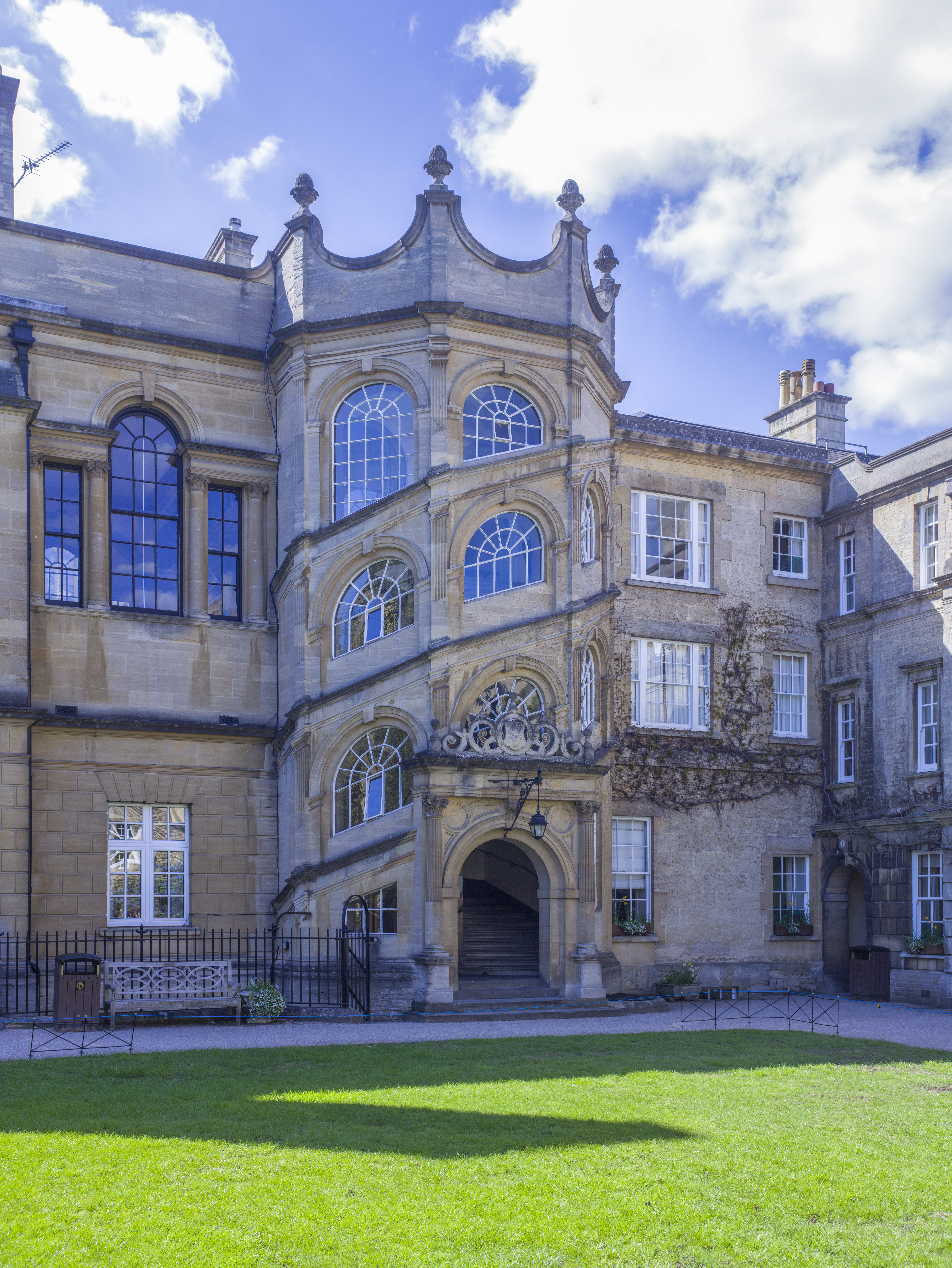 Hertford College (Oxford University) founded in 1282 as Hart Hall, 1448 as Madgalen Hall, and 1740 and 1874 as Hertford. View of stairs to Hart Hall.